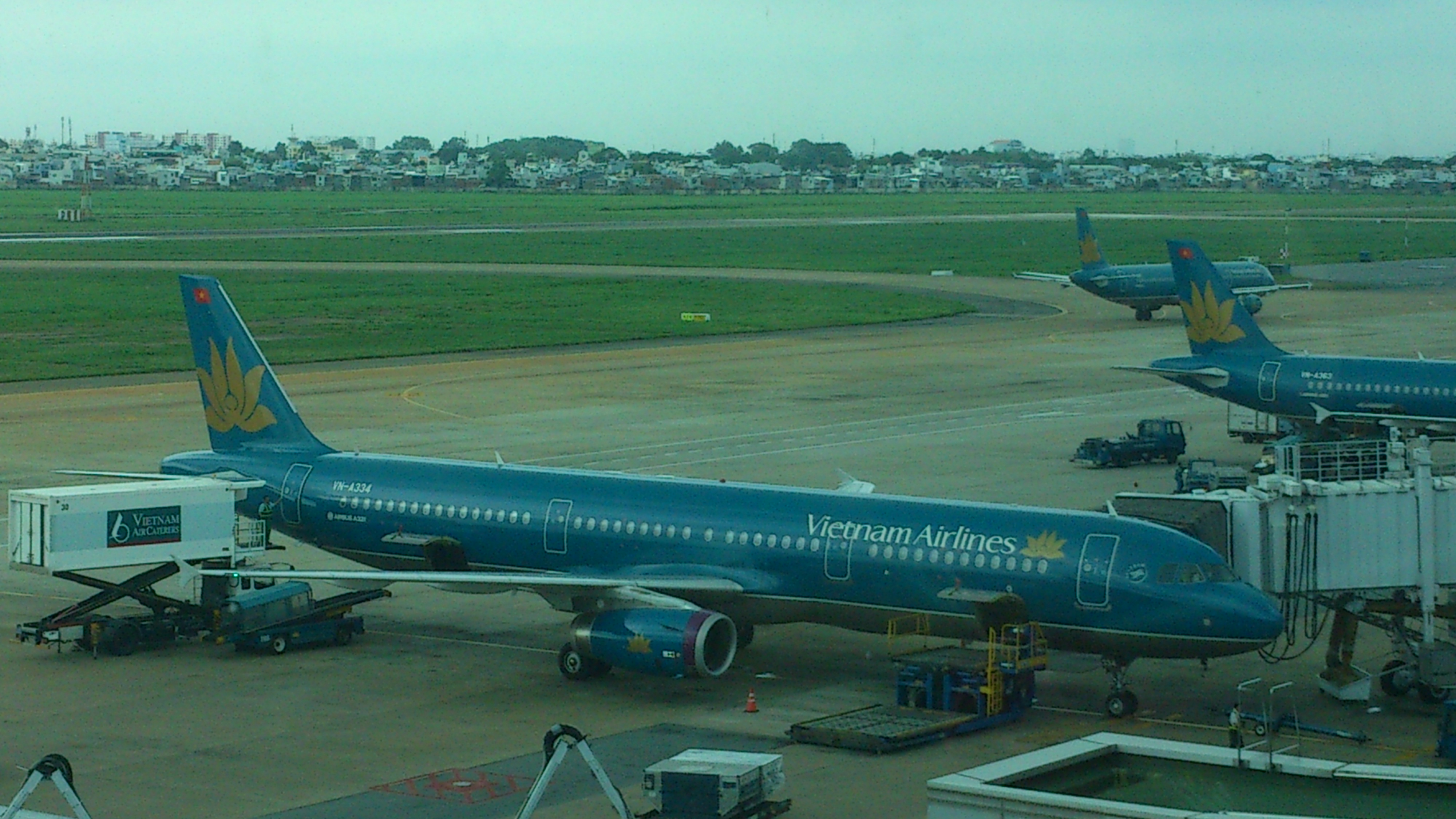 Vietnam Airlines AIRBUS A321 at Tan Son Nhat airport